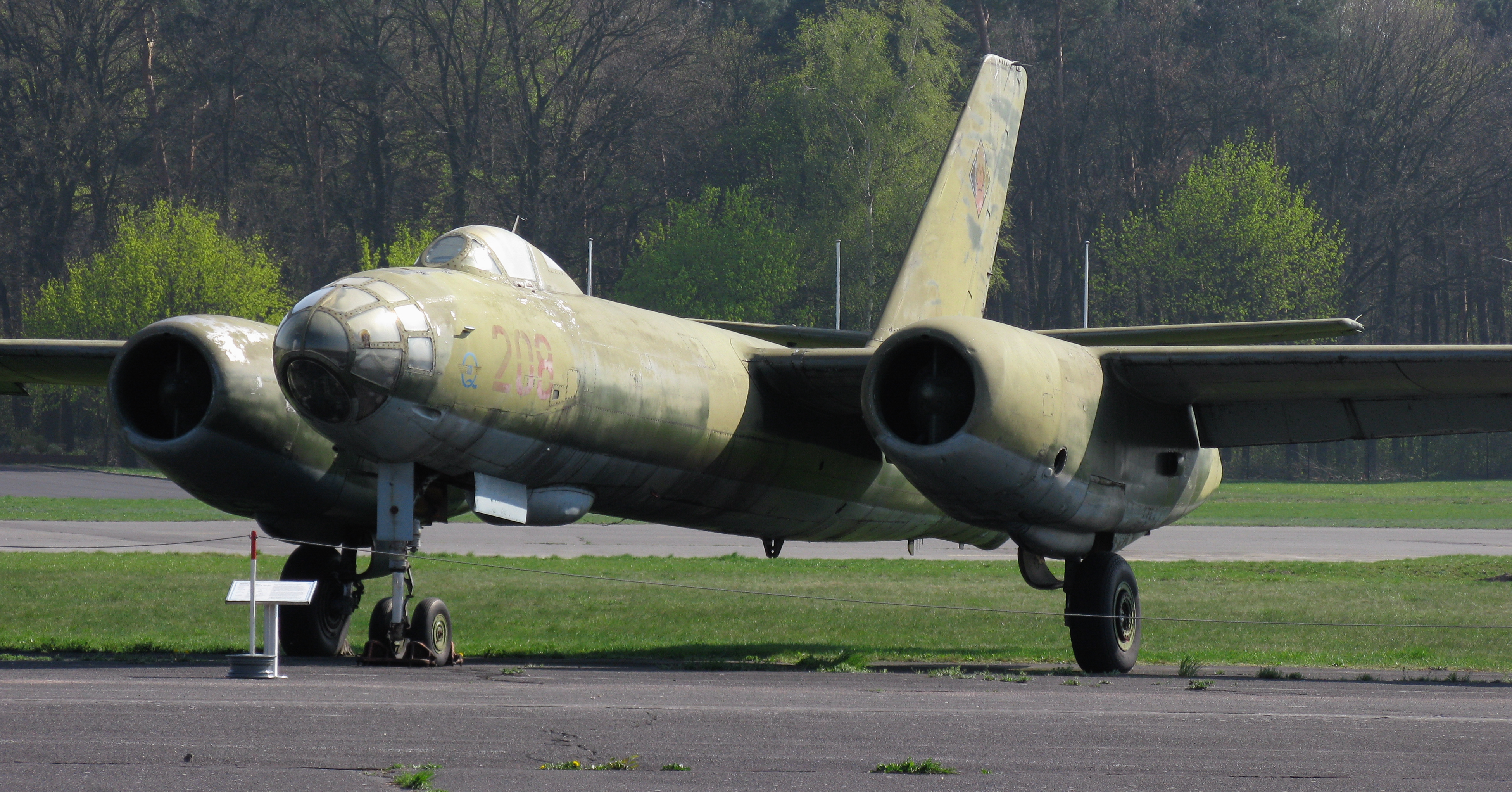 Air Force Museum of the Bundeswehr, Berlin-Gatow: Ilyushin Il-28, call sign "208".